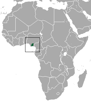 Sclater's Guenon (Cercopithecus sclateri) range